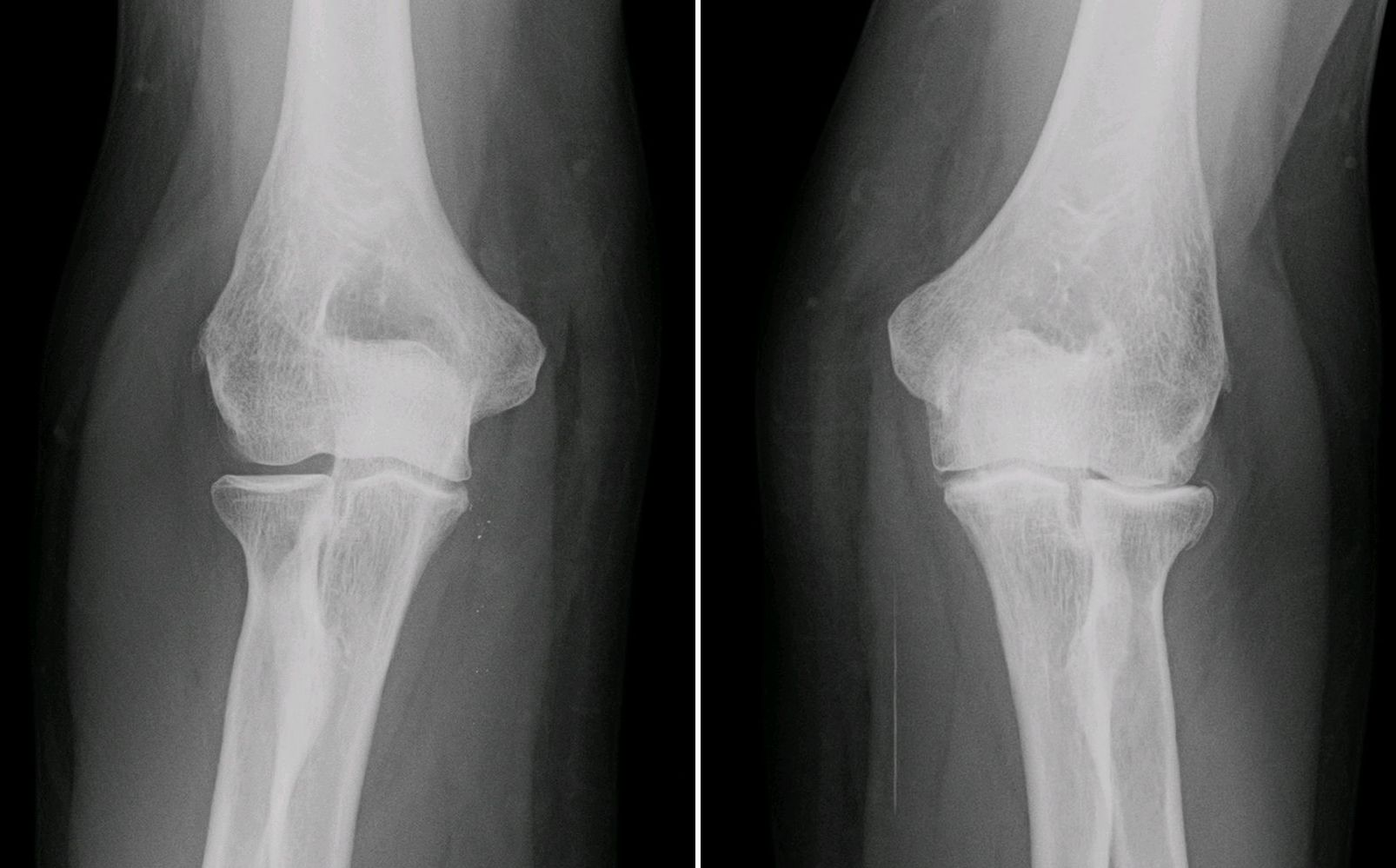 Elbow osteoarthritis in the left elbow. AP X-ray of both elbows of the same patient.